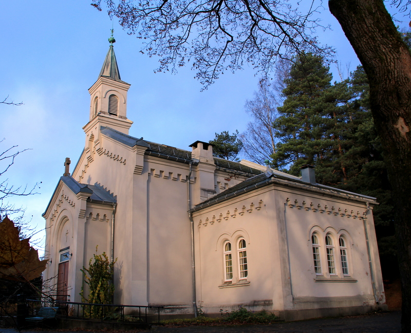 Grefsen kapell, Grefsen, Oslo